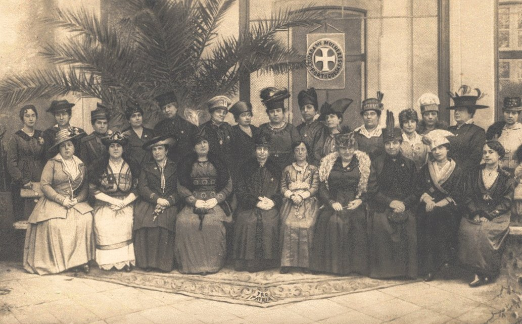 The members of the Portuguese Women's Crusade (Cruzada das Mulheres Portugueses).